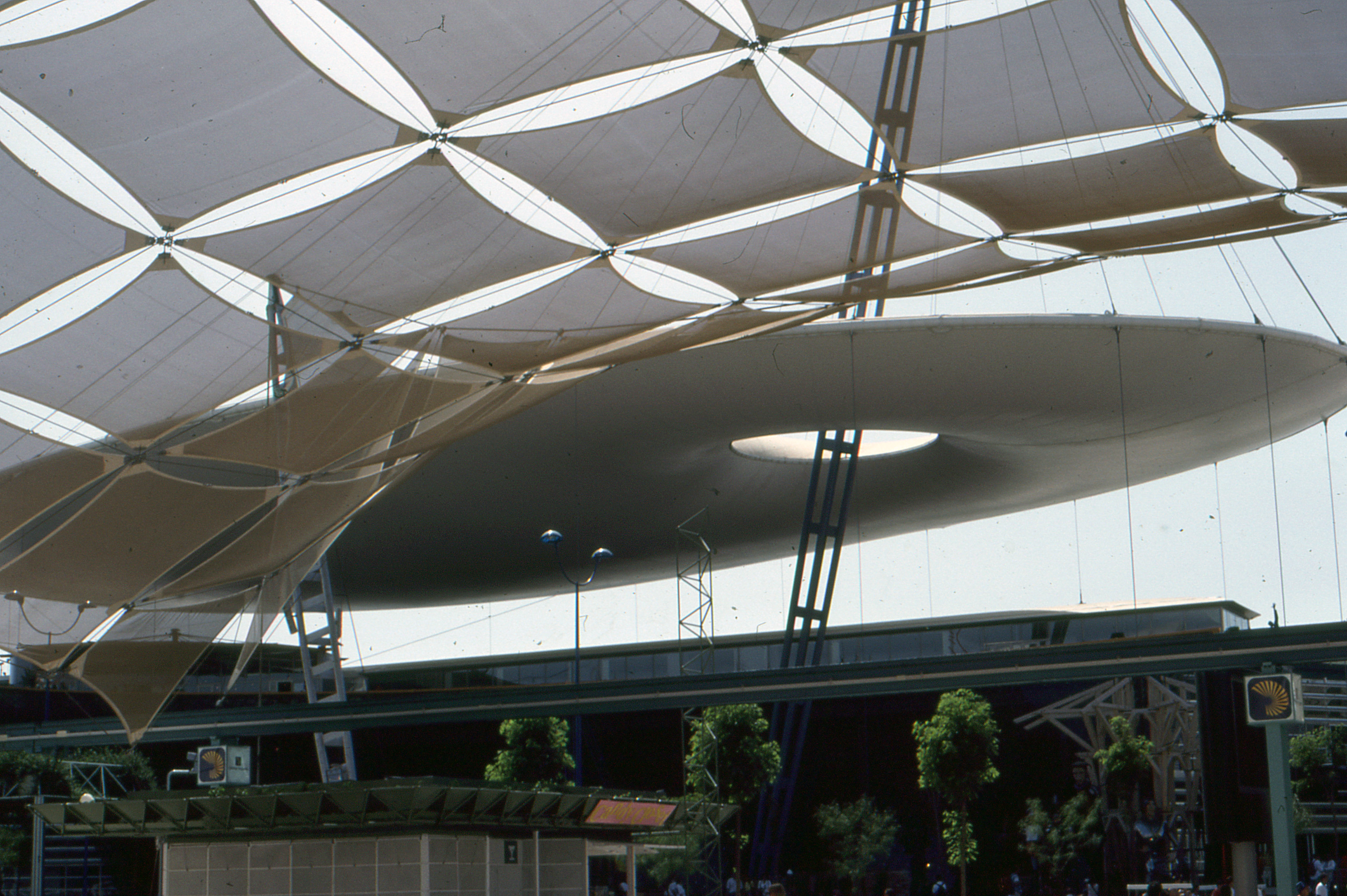 Kevlar sails, a novelty at that time... (Pavillion of Germany) Olympus OM10 + Kadachrome 100 ASA